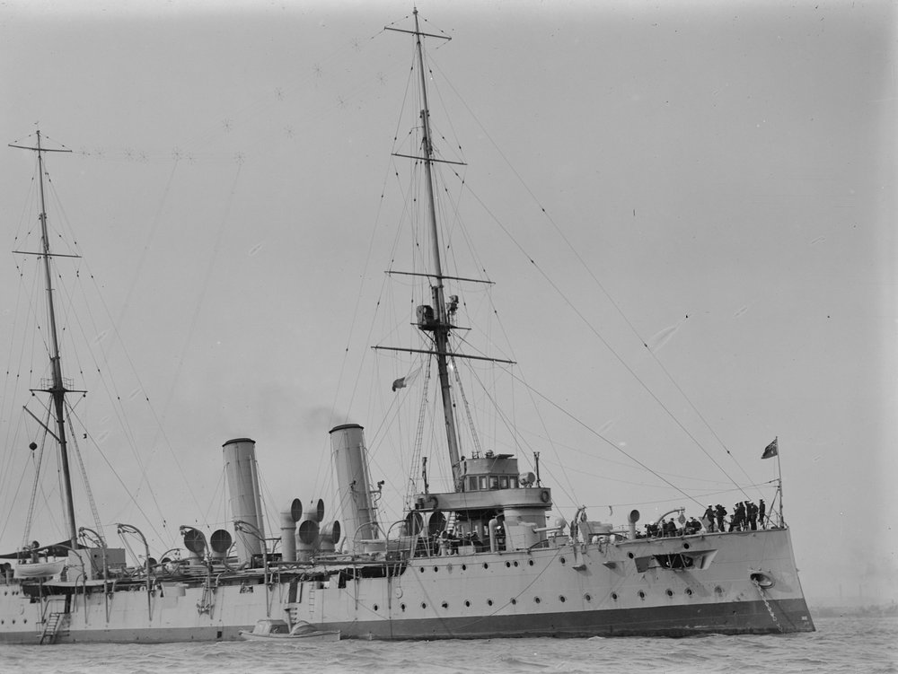 HMAS Pioneer.